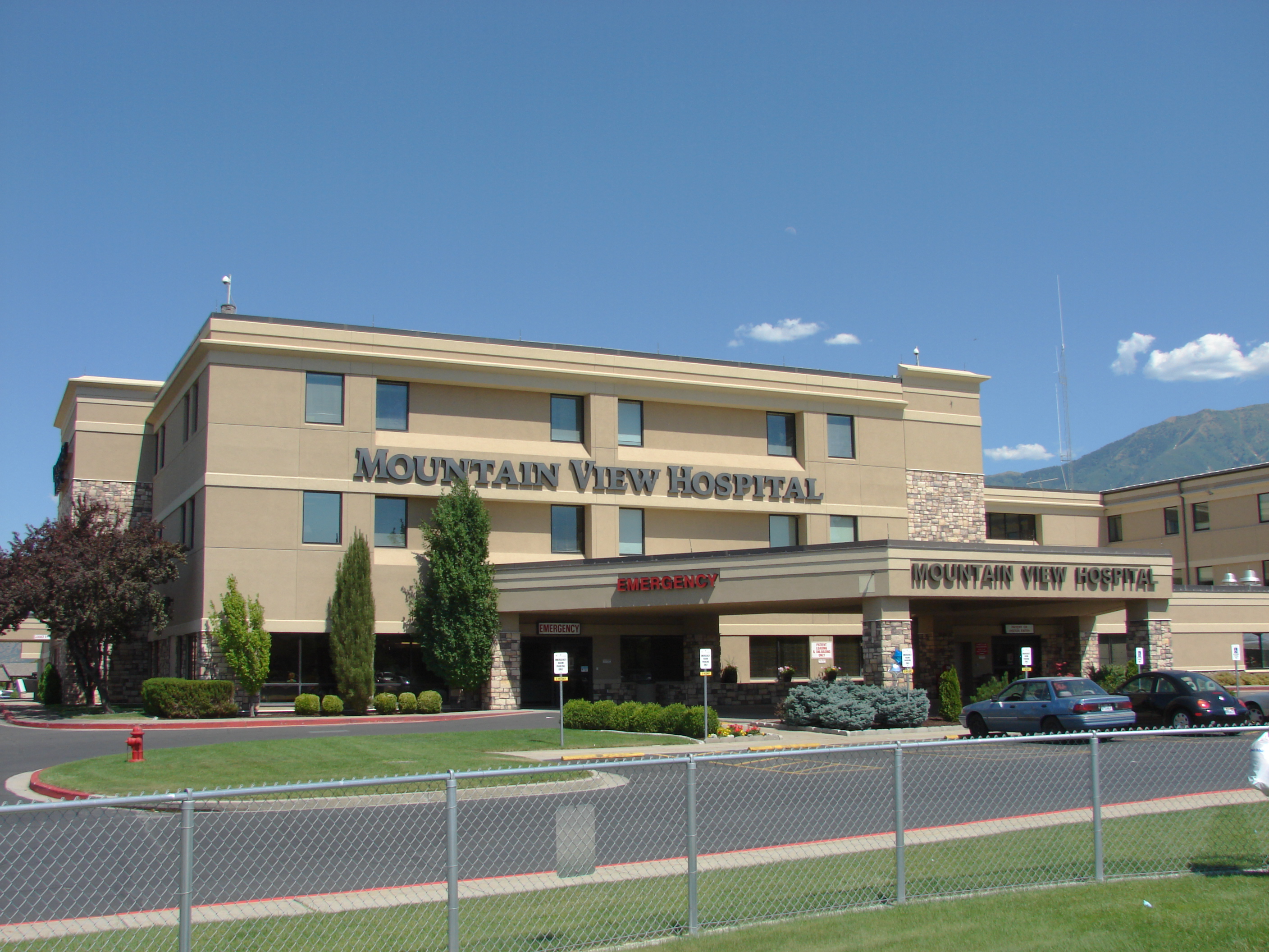 Northwest side of the Mountain View Hospital in Payson, Utah--part of MountainStar Healthcare